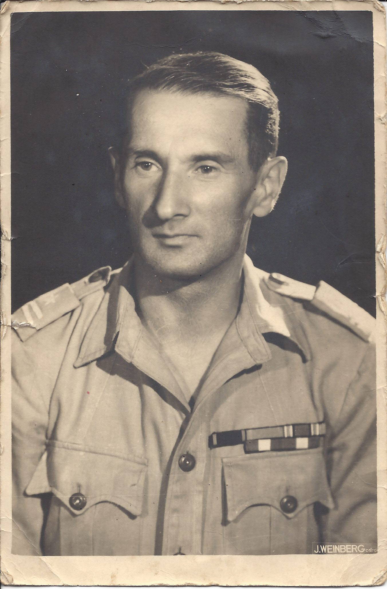 Major Zenon Offenkowski, husband of Sister Nika Offenkowska, both close friends of Halina Grodyńska and Stanisław Grodyński (son of Andrzej Kusionowicz Grodyński) during and after WWII. The Scotch Mist Gallery contains photographs of historic buildings, monuments, memorials and people of Poland.